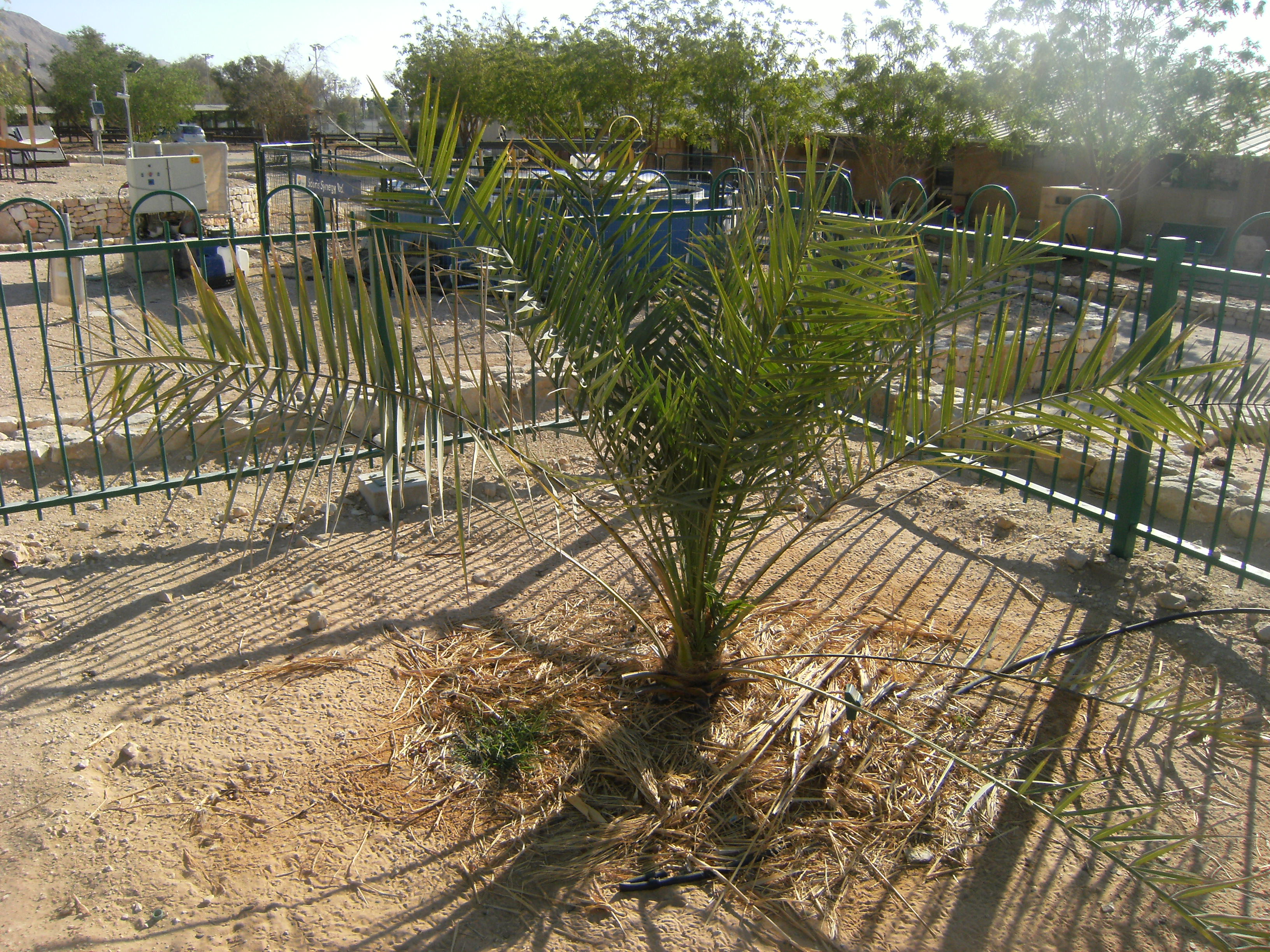 The only example of a Judean Date Palm located at Kibbutz Ketura, Israel. It was germinated in 2005 from a 2000-year-old seed found in the Masada excavations, and is nicknamed "Methuselah". 05:58 GMT (07:58 IST)